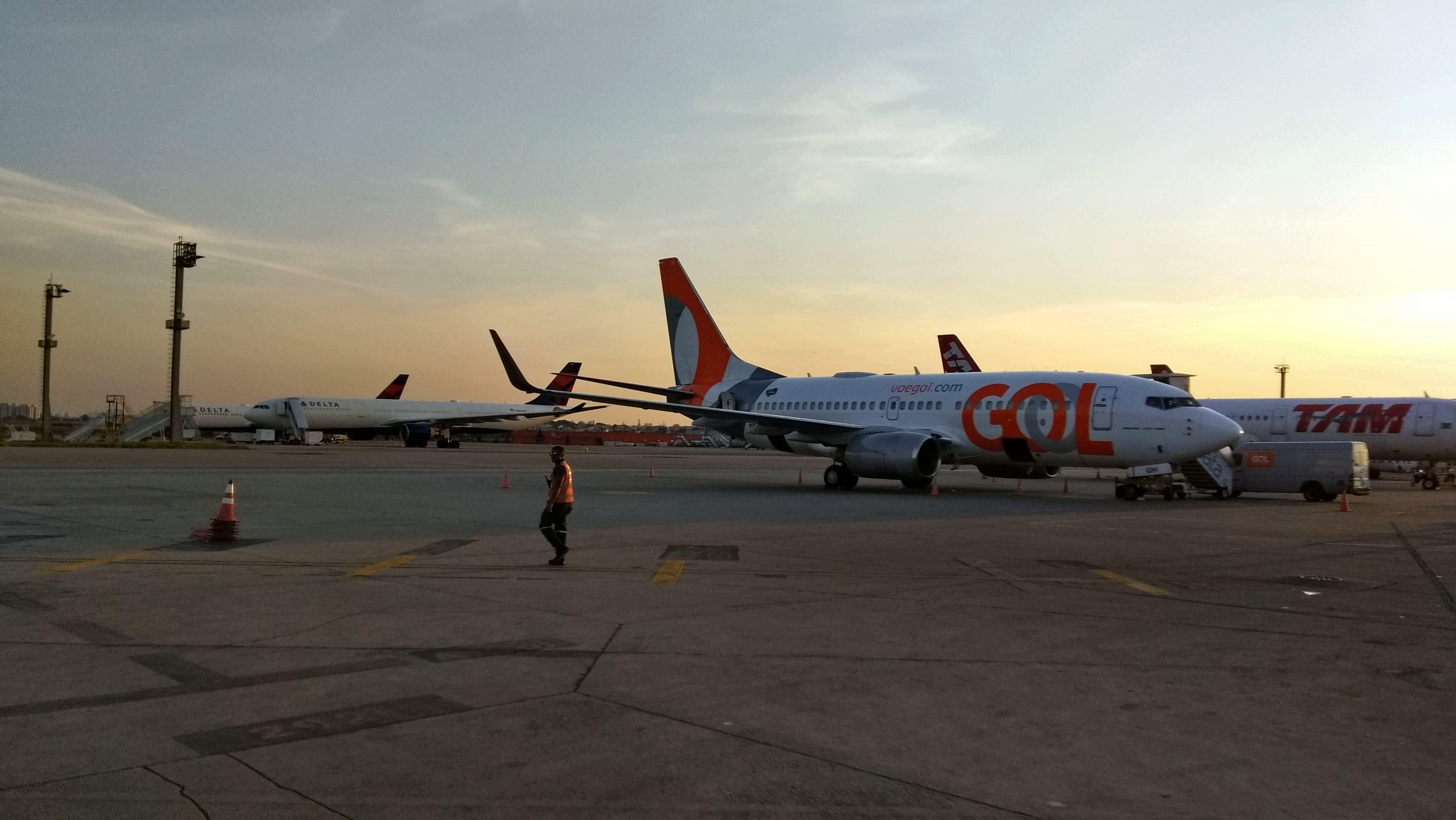 Boeing 737-800 of the Brazilian airline GOL Linhas Aereas Inteligentes at Guarulhos Airport, São Paulo, Brazil